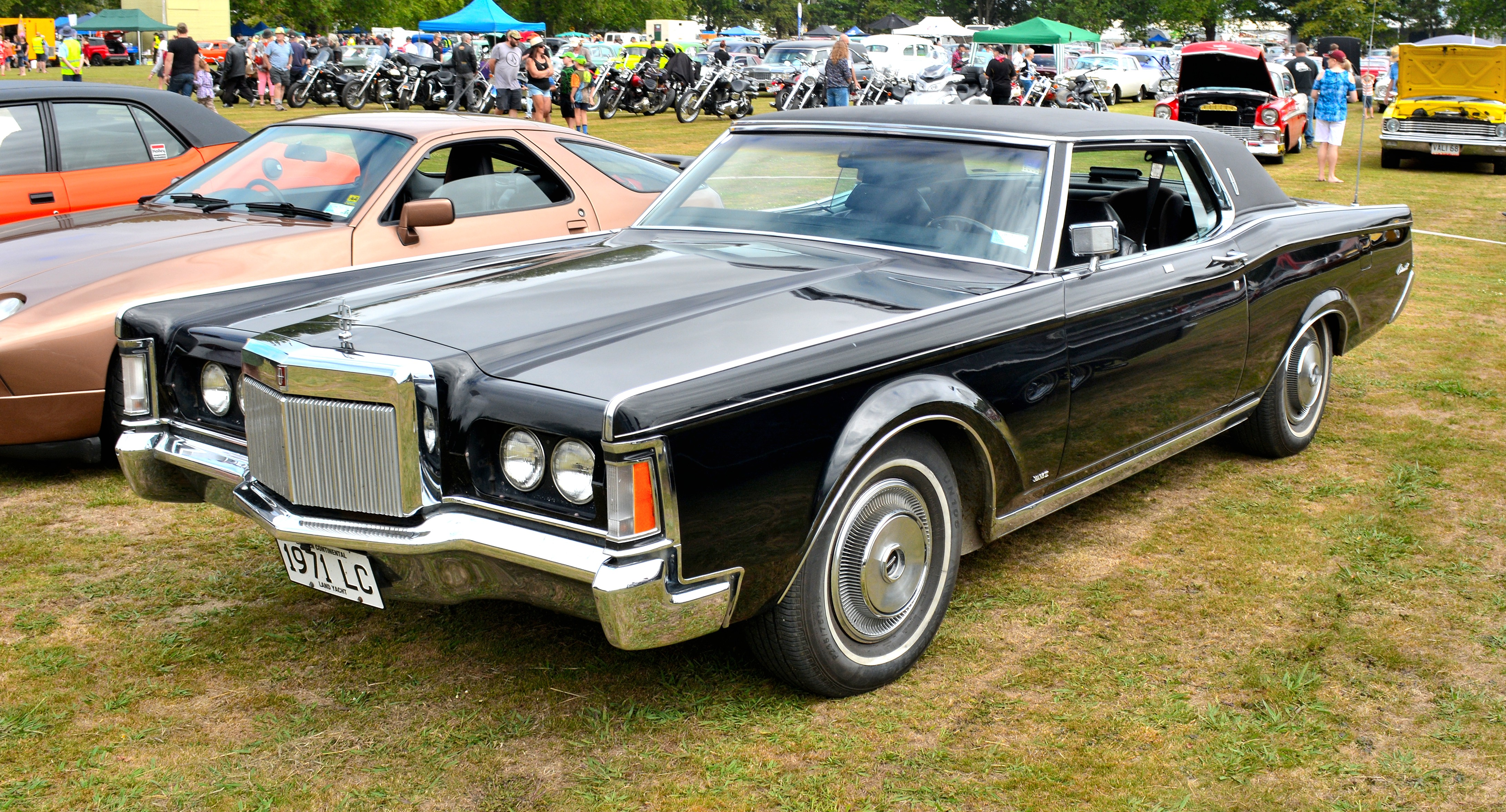 At Morrinsville 2017,New Zealand